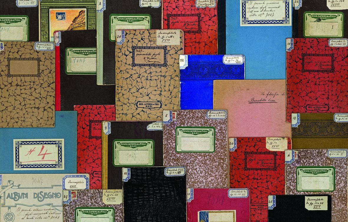 Antonio Gramsci - Prison notebooks - Quaderni del carcere, including "La filosofia di Benedetto Croce".